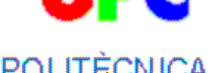 zoom of demosaicing image